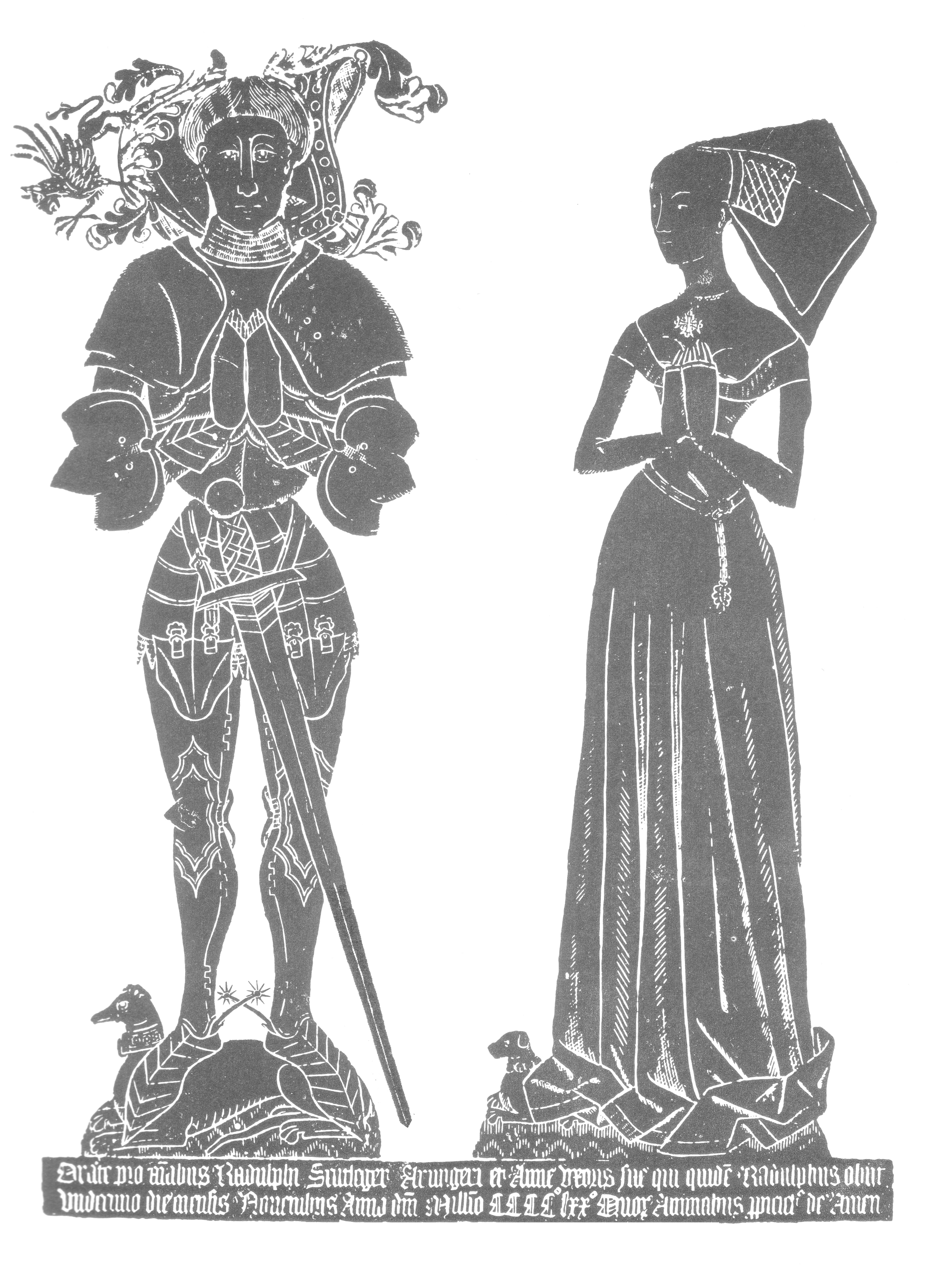 Monumental brass of Ralph I St Leger (d.1470) and his wife Anne (Tyrrell?), Ulcombe Church, Kent. Latin inscription: Orate pro animabus Radulphi Sentleger Armigeri et Anne uxoris suae qui quidam Radulphus obiit undecimo die Novembriis anno domini millencimo CCCCLXX. Quorum animabus propicietur Deus Amen ("Pray ye for the souls of Ralph Saint Leger, Esquire, and Anne his wife, the which Ralph died on the eleventh day of the month of November in the year of our Lord one thousand four hundred and seventieth. On the souls of whom may God look with favour. Amen")